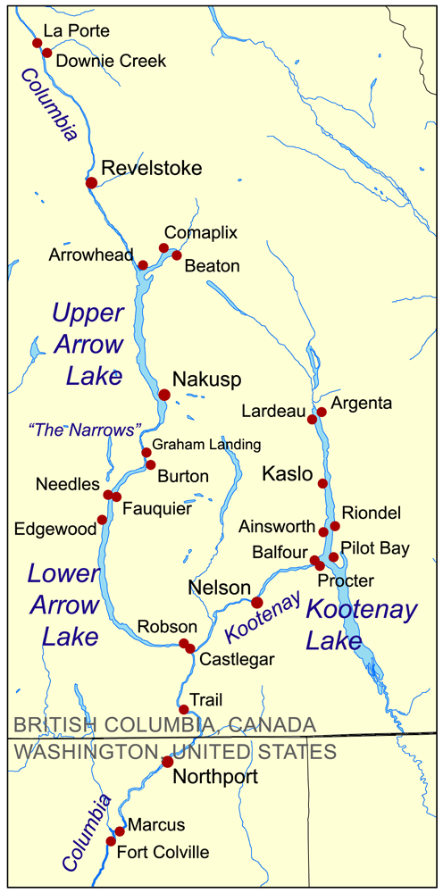 This is a map showing steamboat ports on the Arrow Lakes and Kootenay Lake, in western Canada.